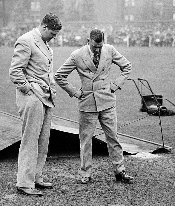 Heavy rain on the third day of the 3rd Test match at Headingley in Leeds prevented any play between England and Australia until early evening, and this image shows the England captain Percy Chapman (left) inspecting the wicket with Bill Woodfull of Australia after the makeshift cover had been removed from the bowler's end, 14th July 1930. The match ended in a draw.